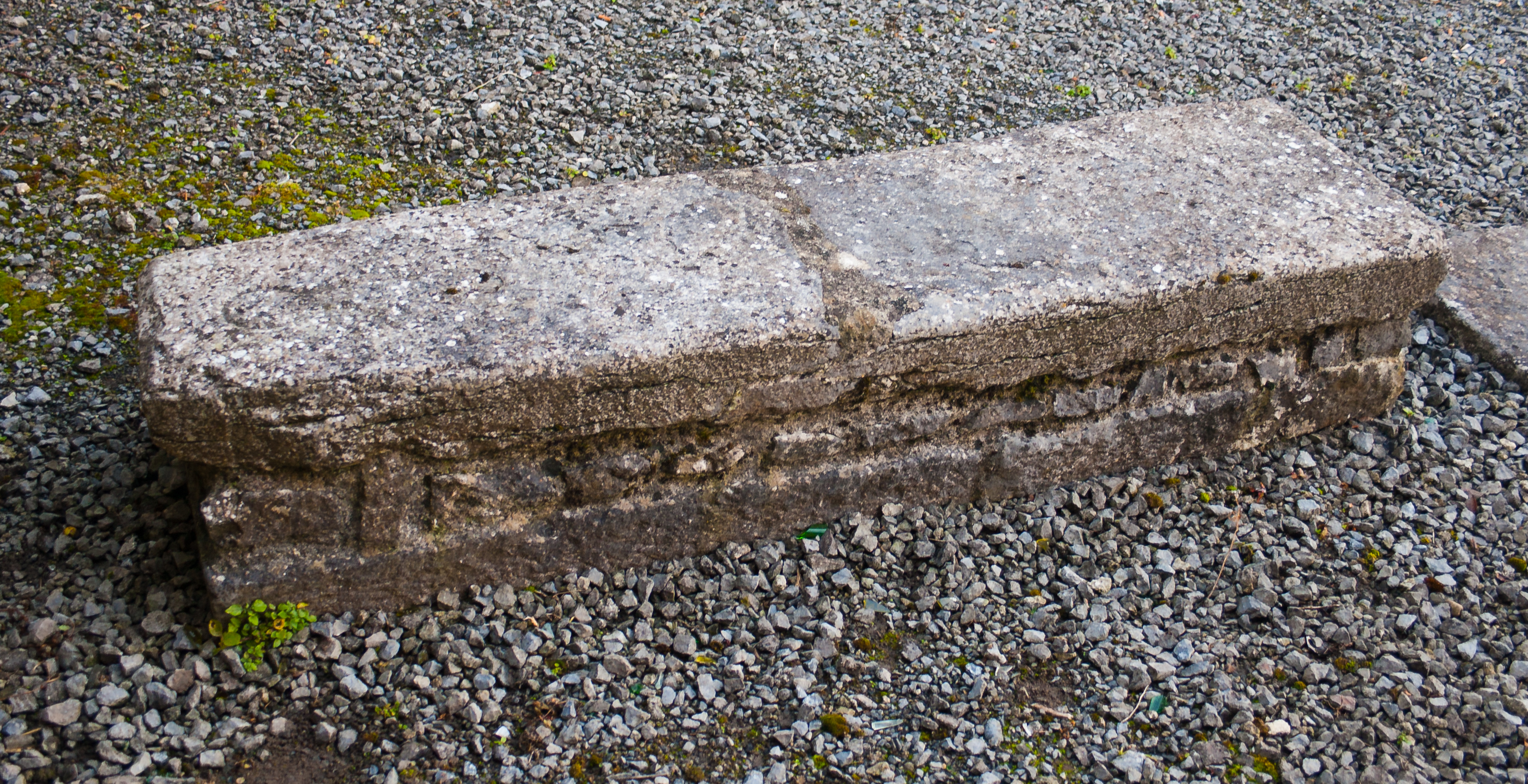 Early Christian cross slab in the centre of the choir.